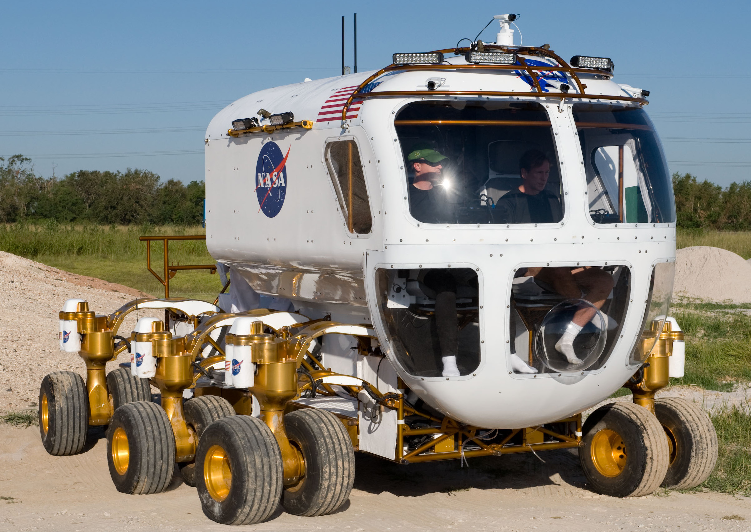 NASA's Lunar Electric Rover with pressurised crew cabin